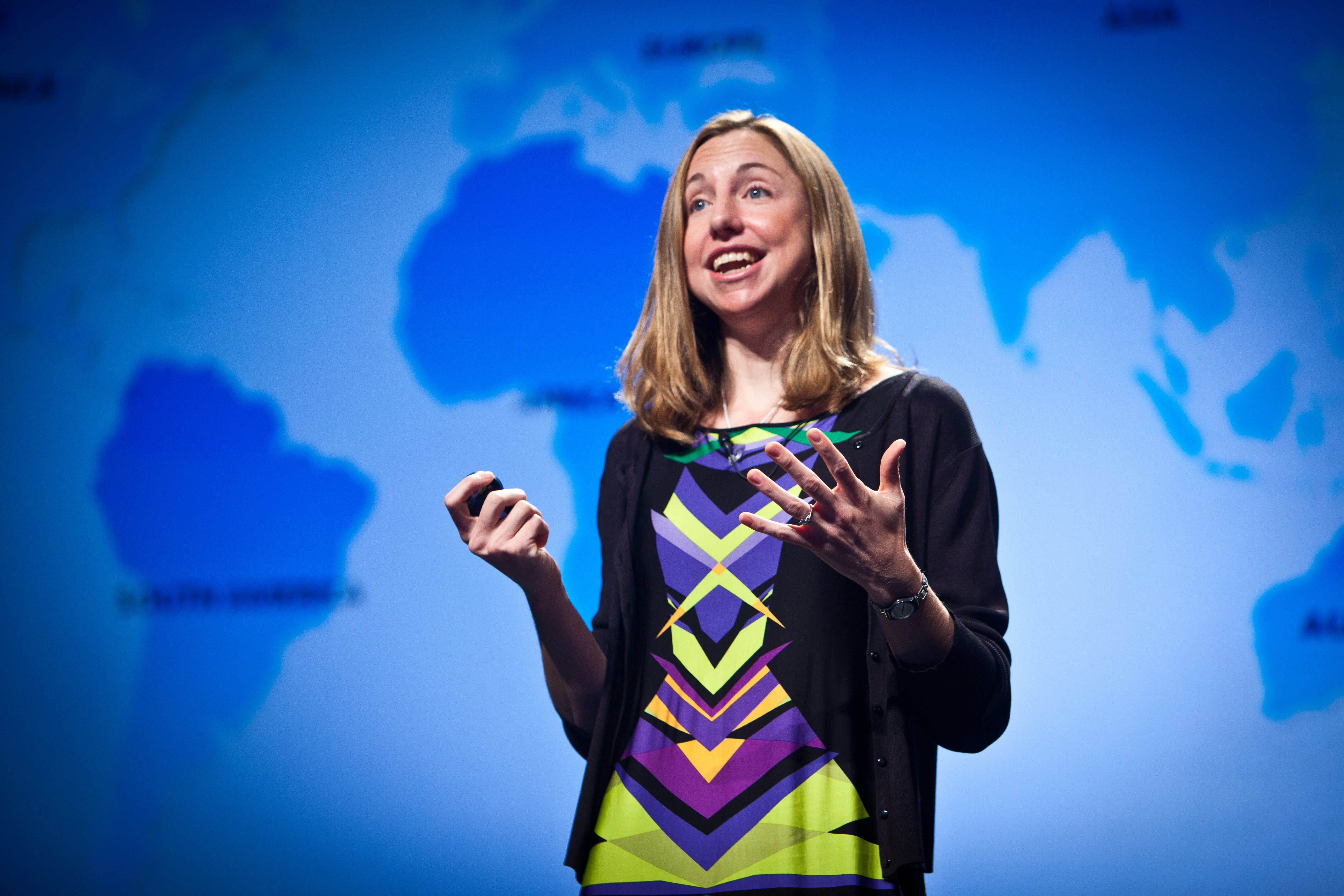 Elizabeth Dunn - PopTech 2010 - Camden, Maine